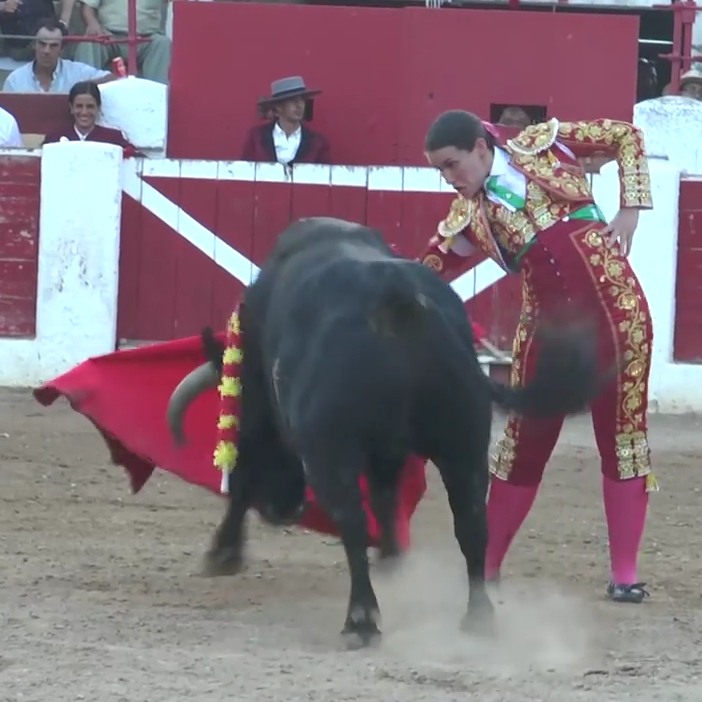 Conchi Reyes Rios - bullfighting